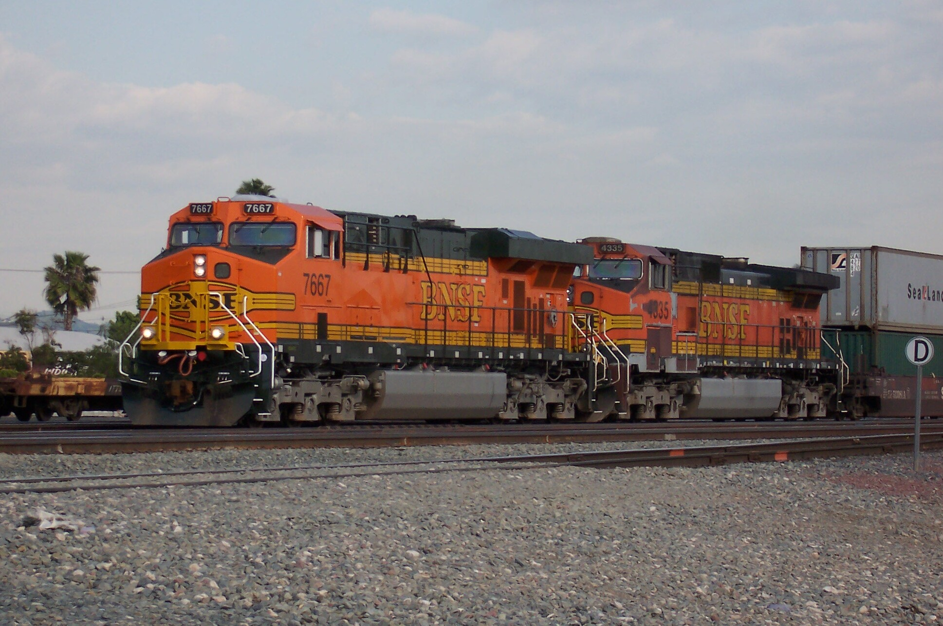 Two GE locomotives, ES44DC (BNSF 7667) and Dash 9-44CW (BNSF 4335) showing differences between the two models. Location: City of Commerce, California, USA.